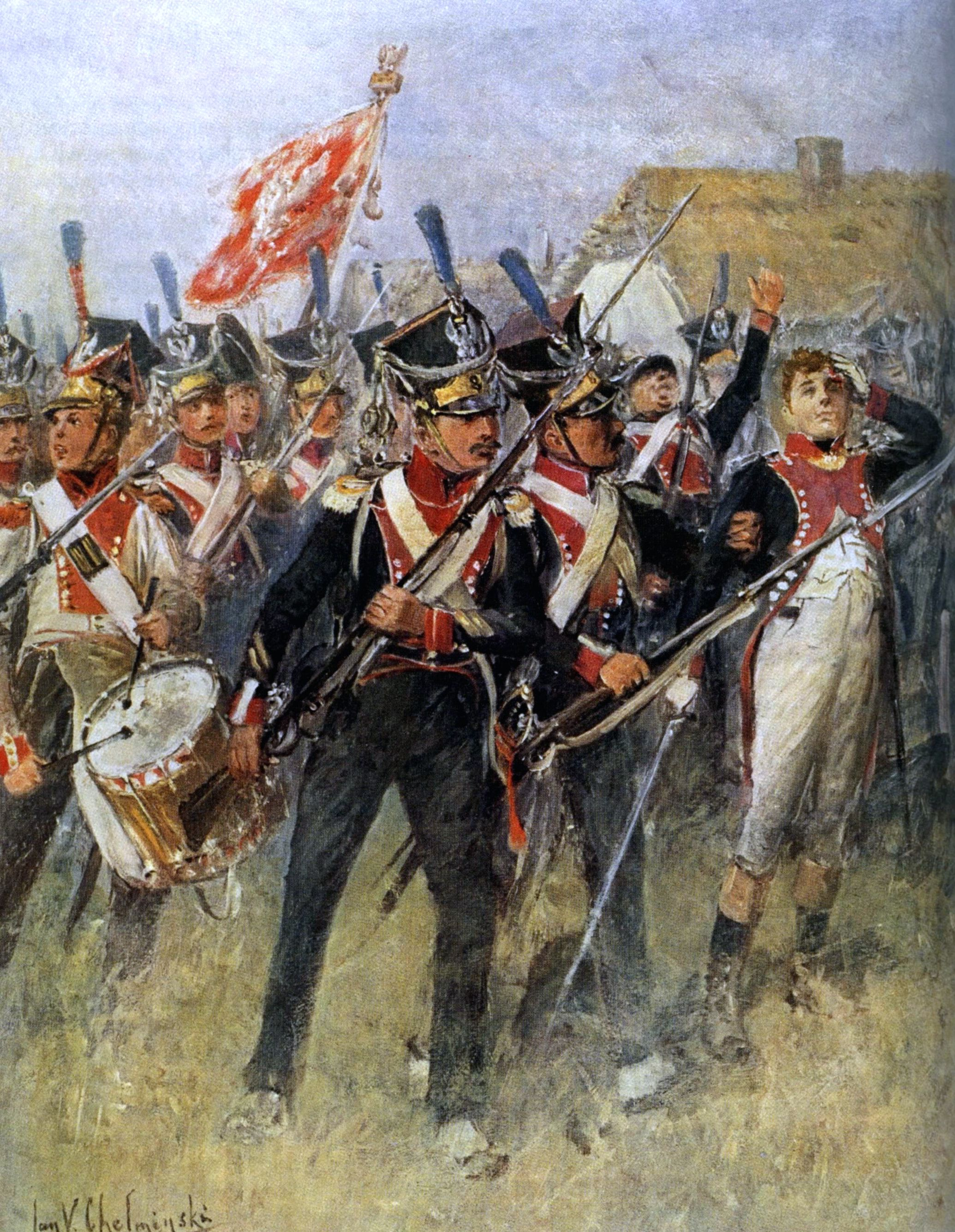 8th Infantry Regiment of Duchy of Warsaw during the Battle of Raszyn in 1809